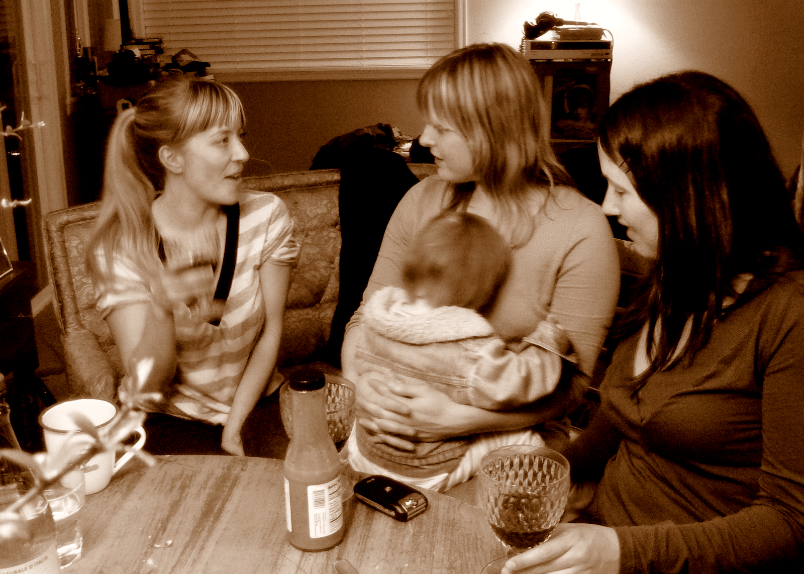 three women and child, friendly conversation, with wine, at a table, indoors